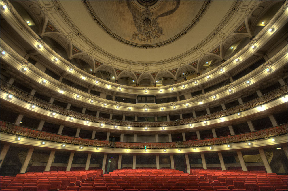 The Great Theatre of Havana interior.